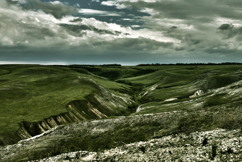 Trehostrovskaya.